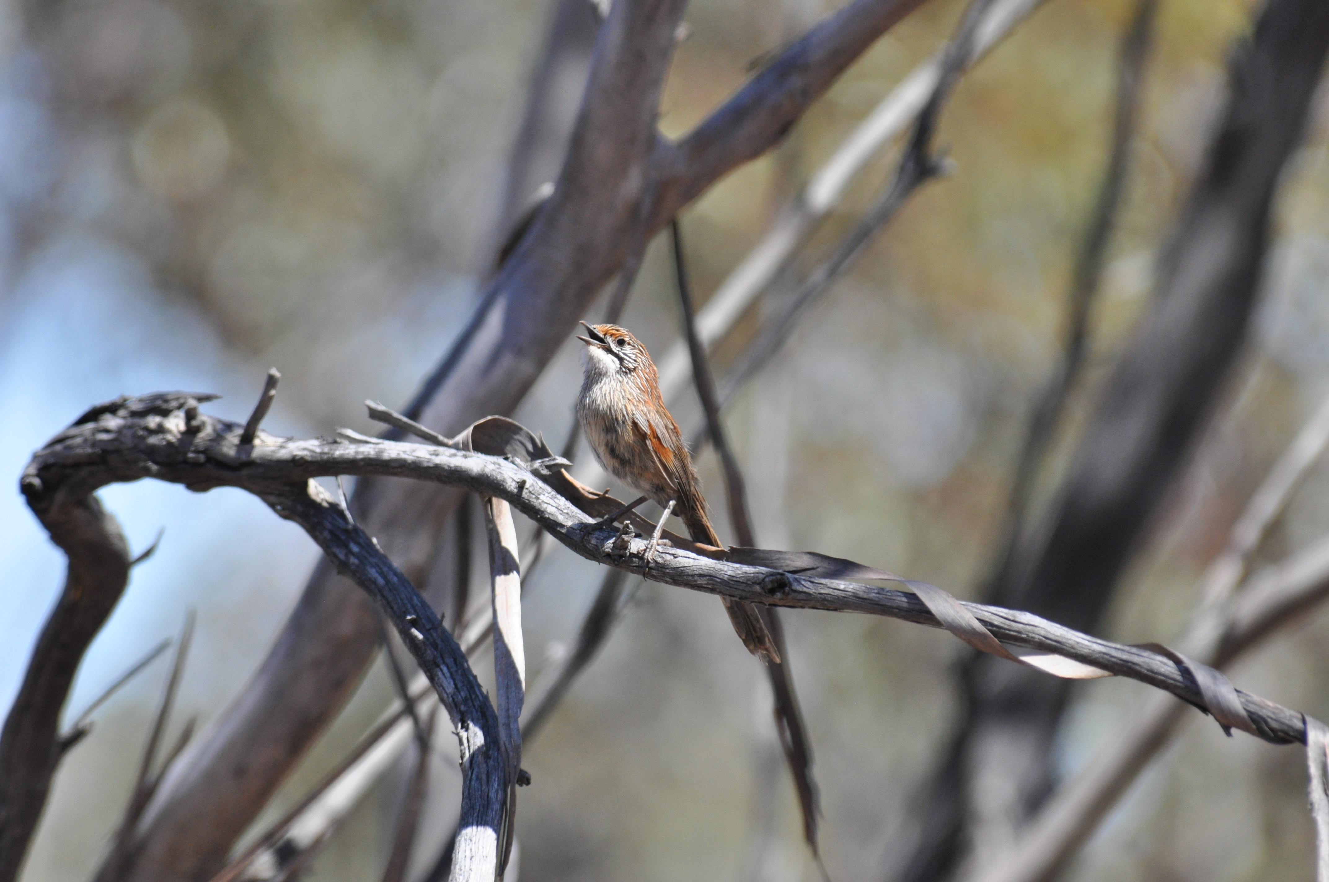 Photo of a Striated Grasswren, taken at Scotia Station NSW.